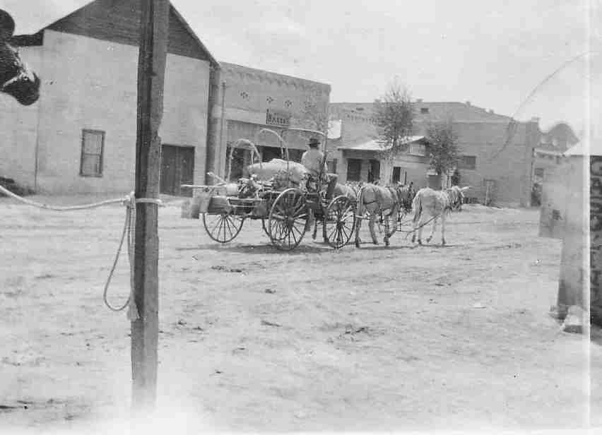 Blythe, California, no date, circa 1900? "ON HOBSONWAY A BURRO TEAM AND AN EARLY BLYTHE BAKERY"